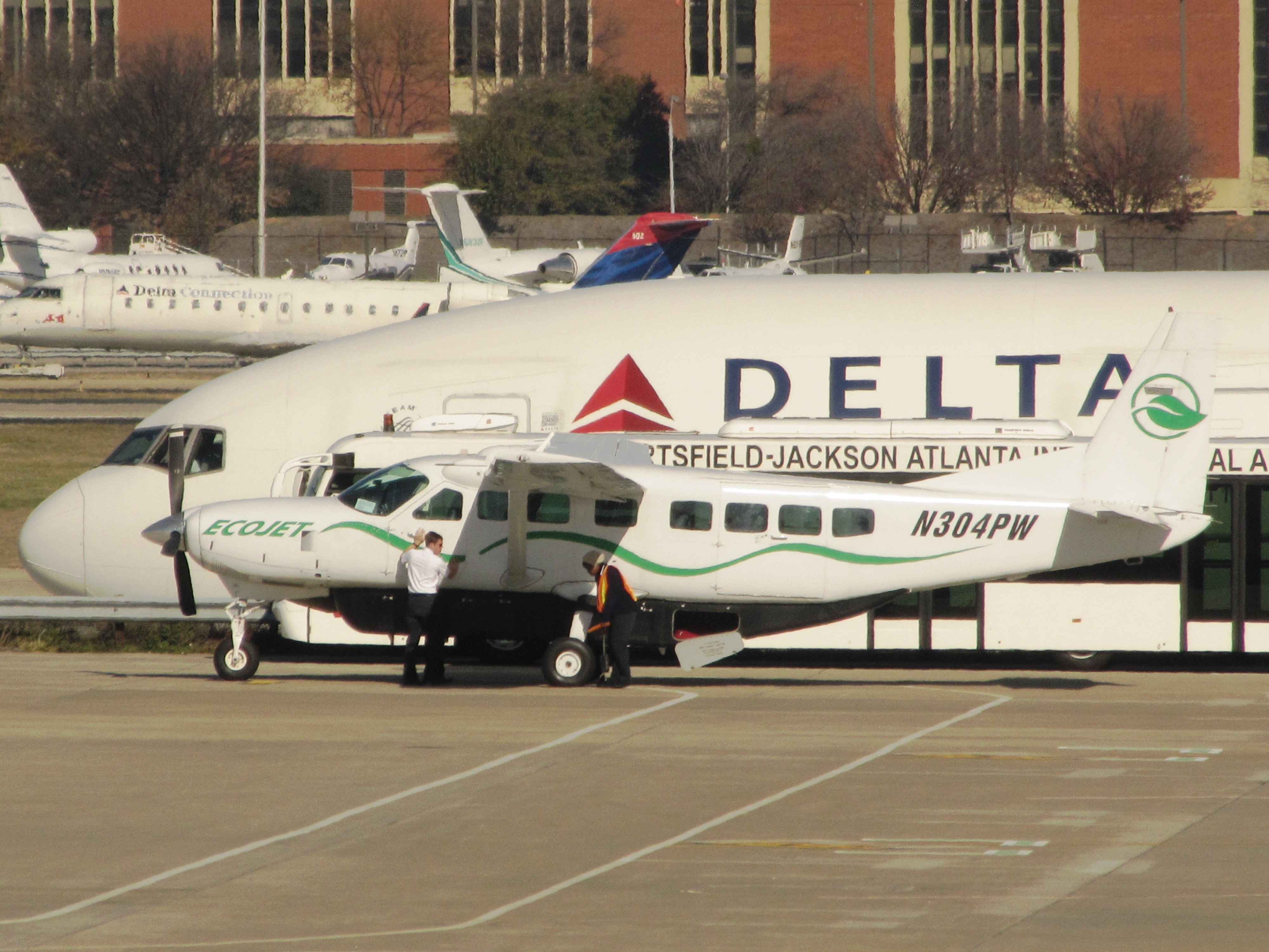 Pacific Wings Cessna 208 Caravan taxiing at Hartsfield-Jackson Atlanta International Airport